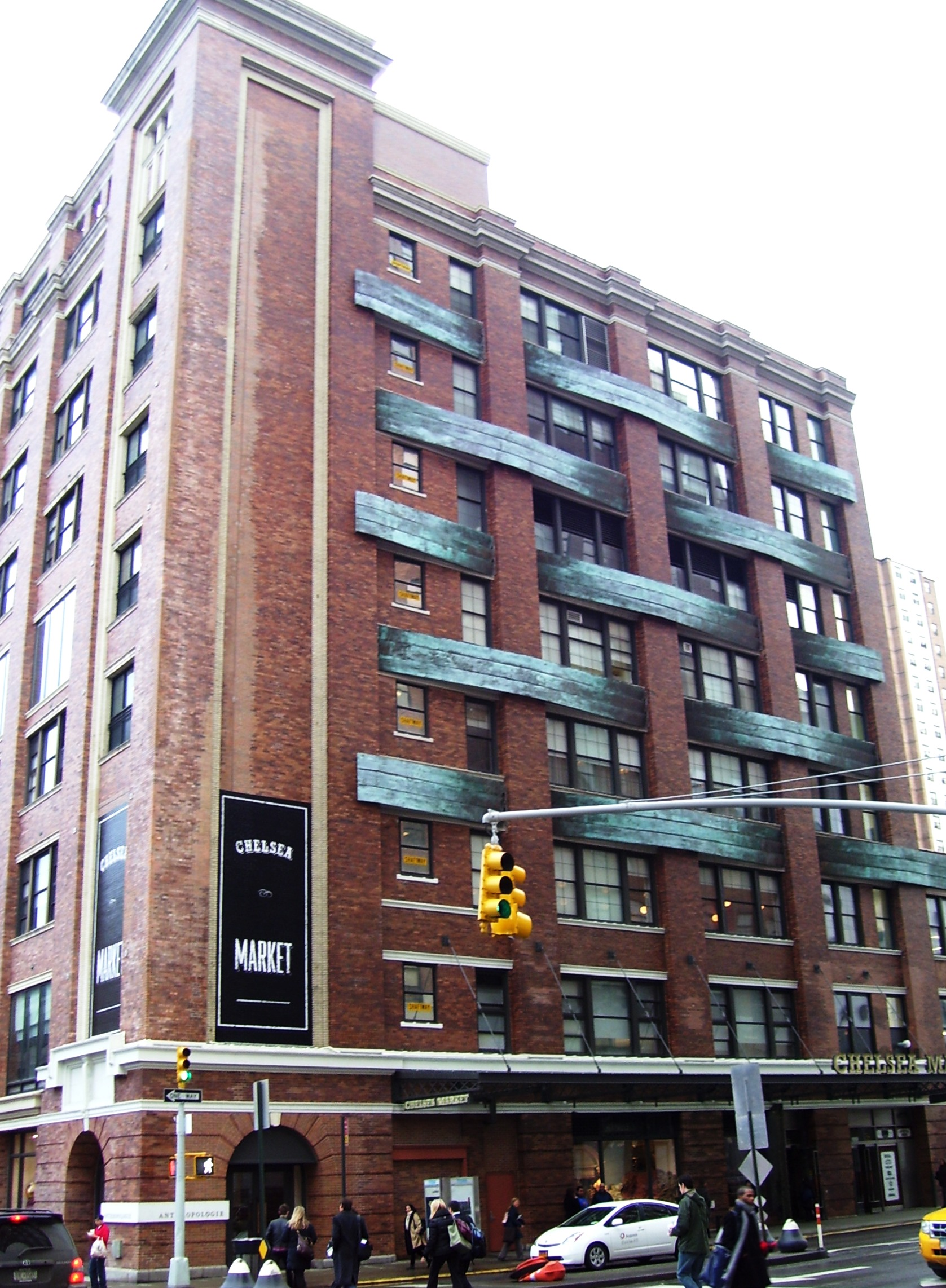 Chelsea Market as seen from the south (downtown)